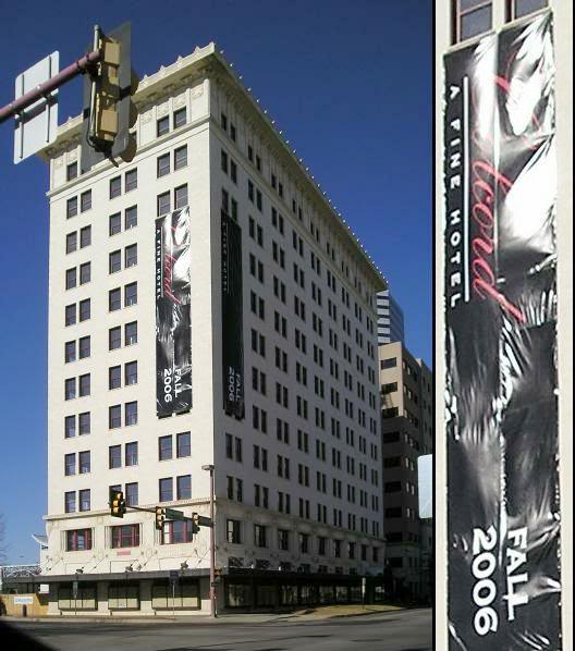 Colcord Hotel